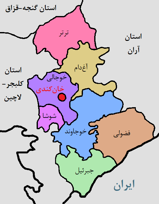 Upper Karabakh Region